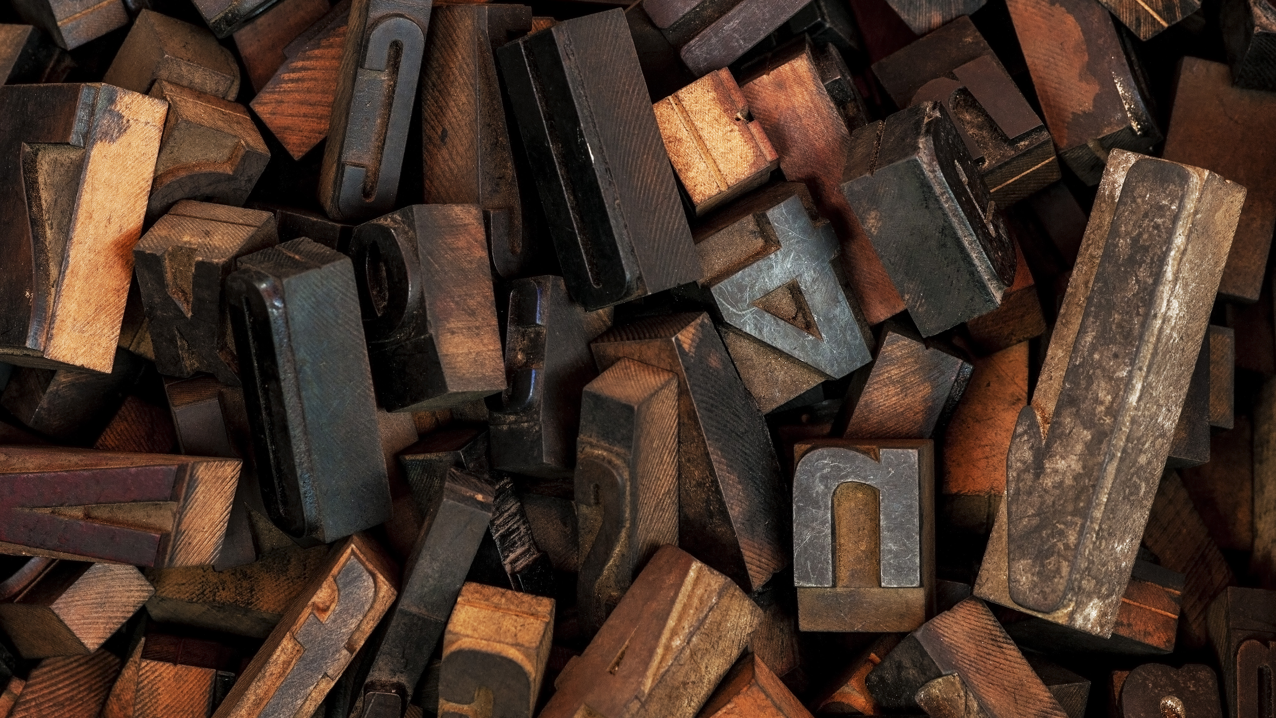 pile of blocks used for English language letterpress